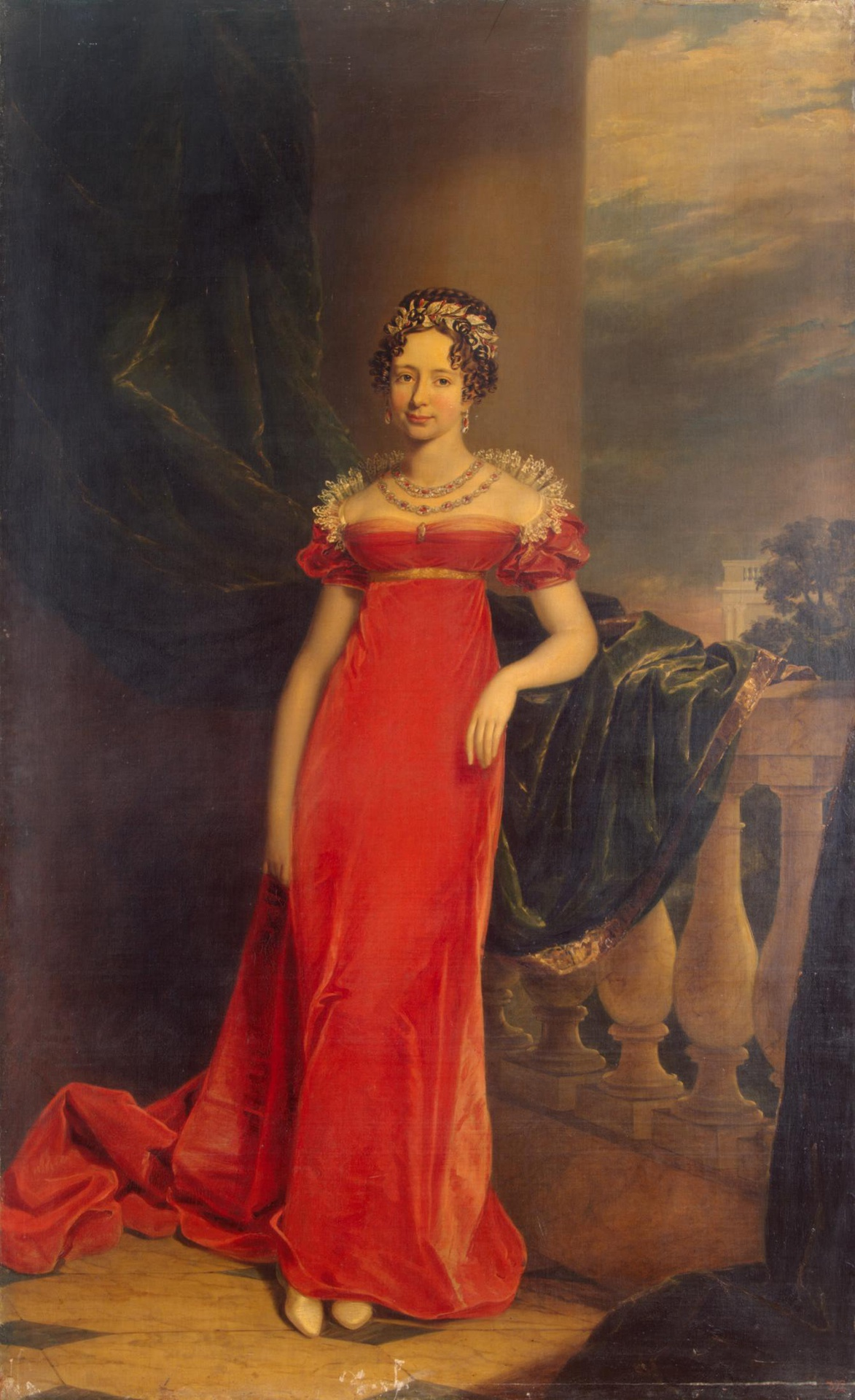 Grand Duchess Maria Pavlovna of Russia (1786-1859)